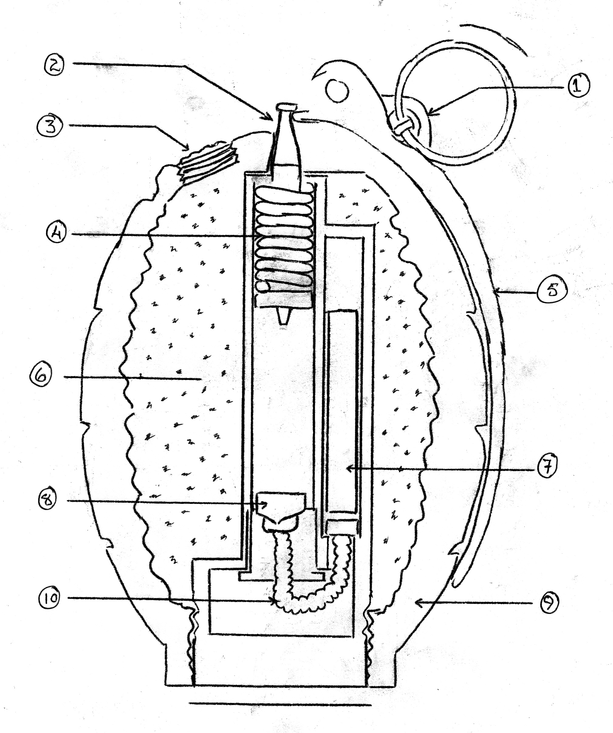 Parts of Hand grenades_How it works